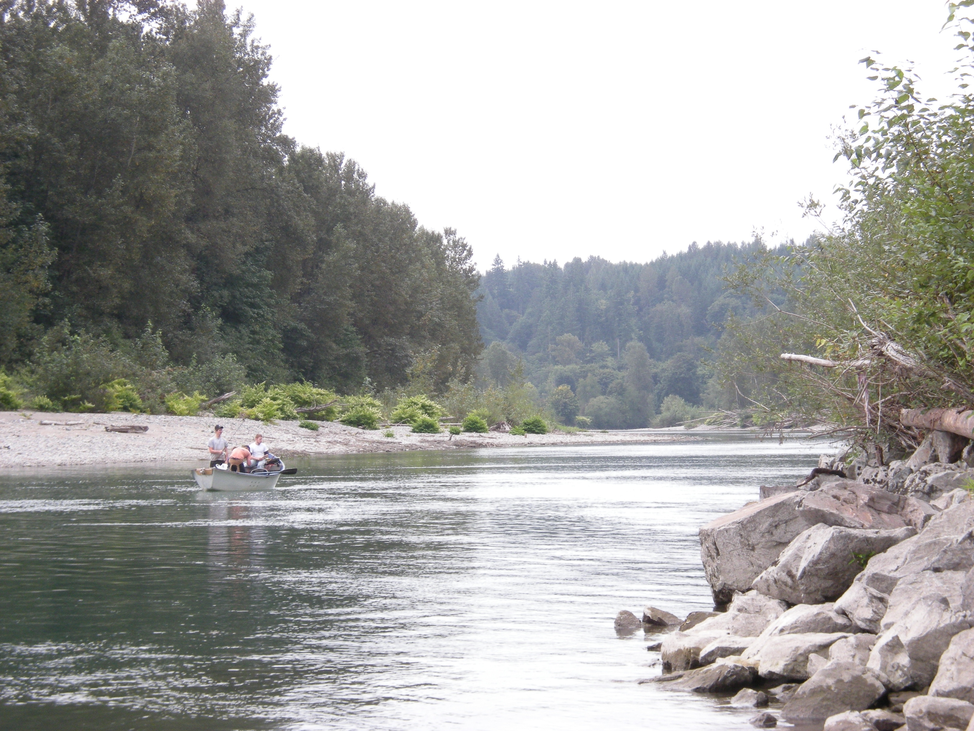 River, seen from below the highway (US 2) and railway bridges, Sultan, Washington.